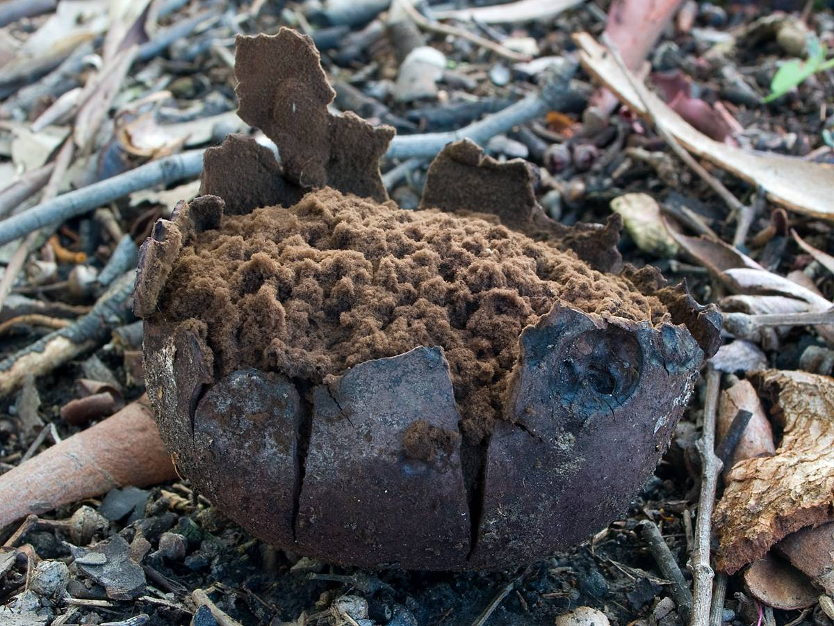 A fruit body of a mature specimen of the puffball species Mycenastrum corium (Guers.) Desv.. Specimen was photographed in Melbourne, Victoria, Australia.